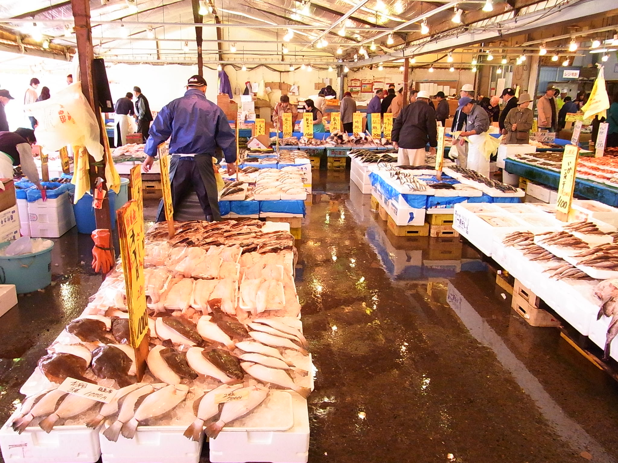 Nakaminato Fish Market in Hitachinaka, Ibaraki Prefecture, Japan